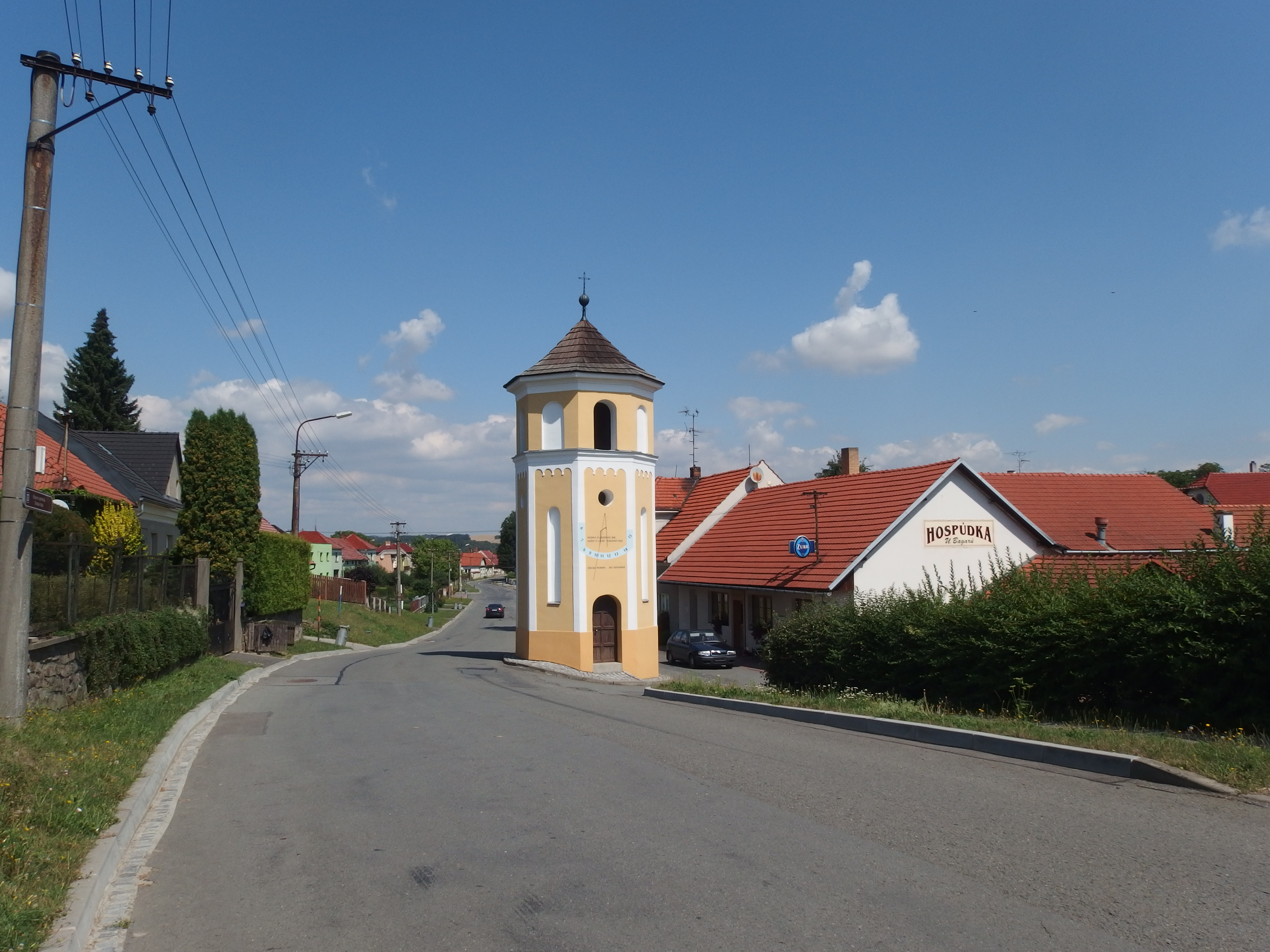 Skalička, Přerov District, Czech Republic. Bell tower.